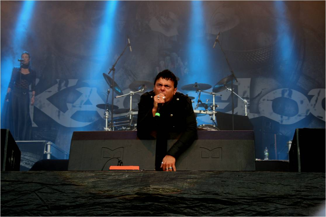 Kamelot at Norway Rock Festival 2010